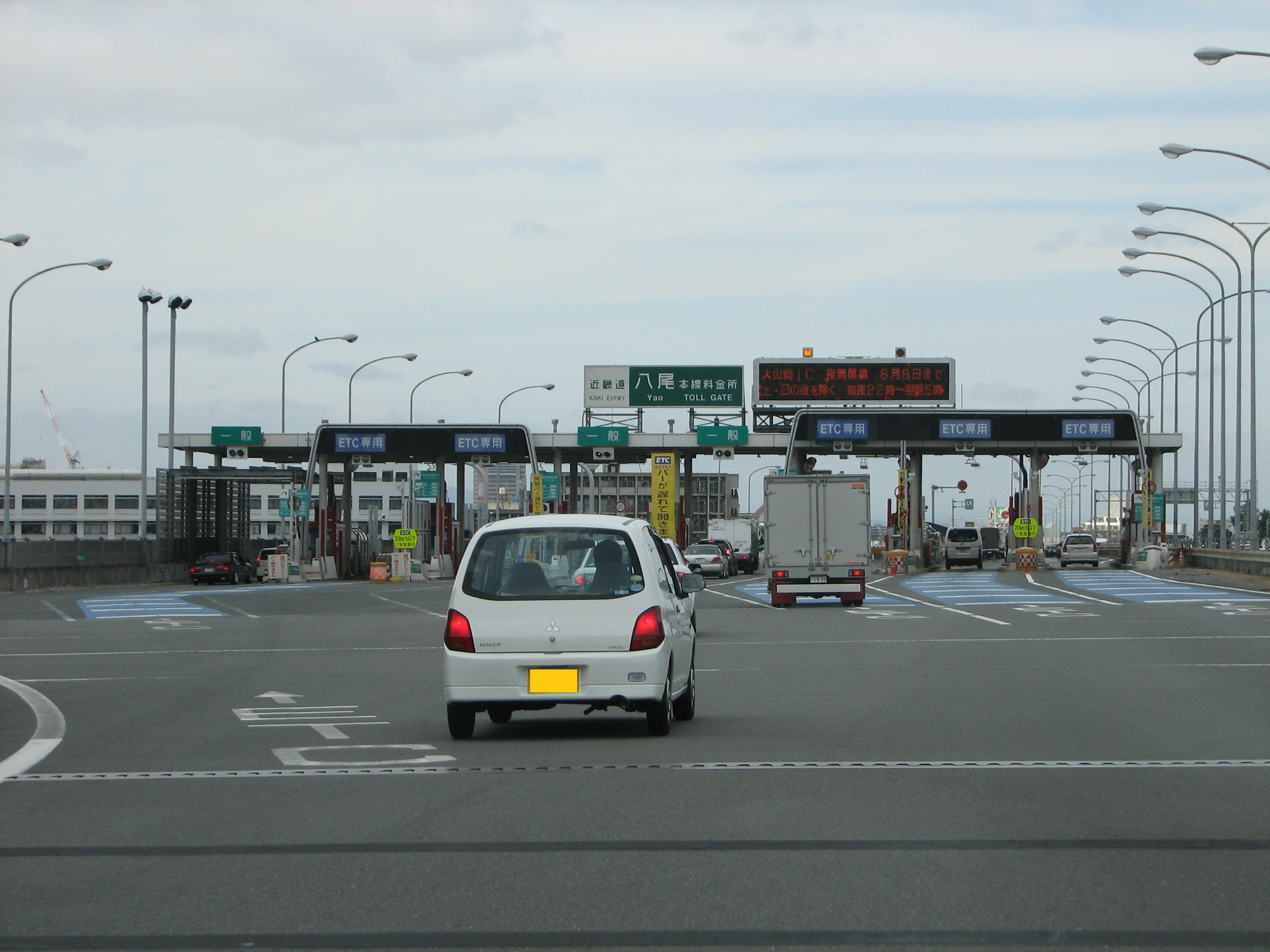 Yao Tollgate